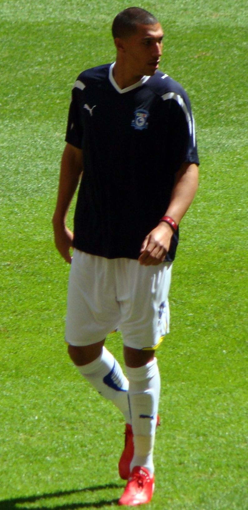 Jay Bothroyd, cropped. 22/05/10 Cardiff V Blackpool, Championship Final, Wembley, England